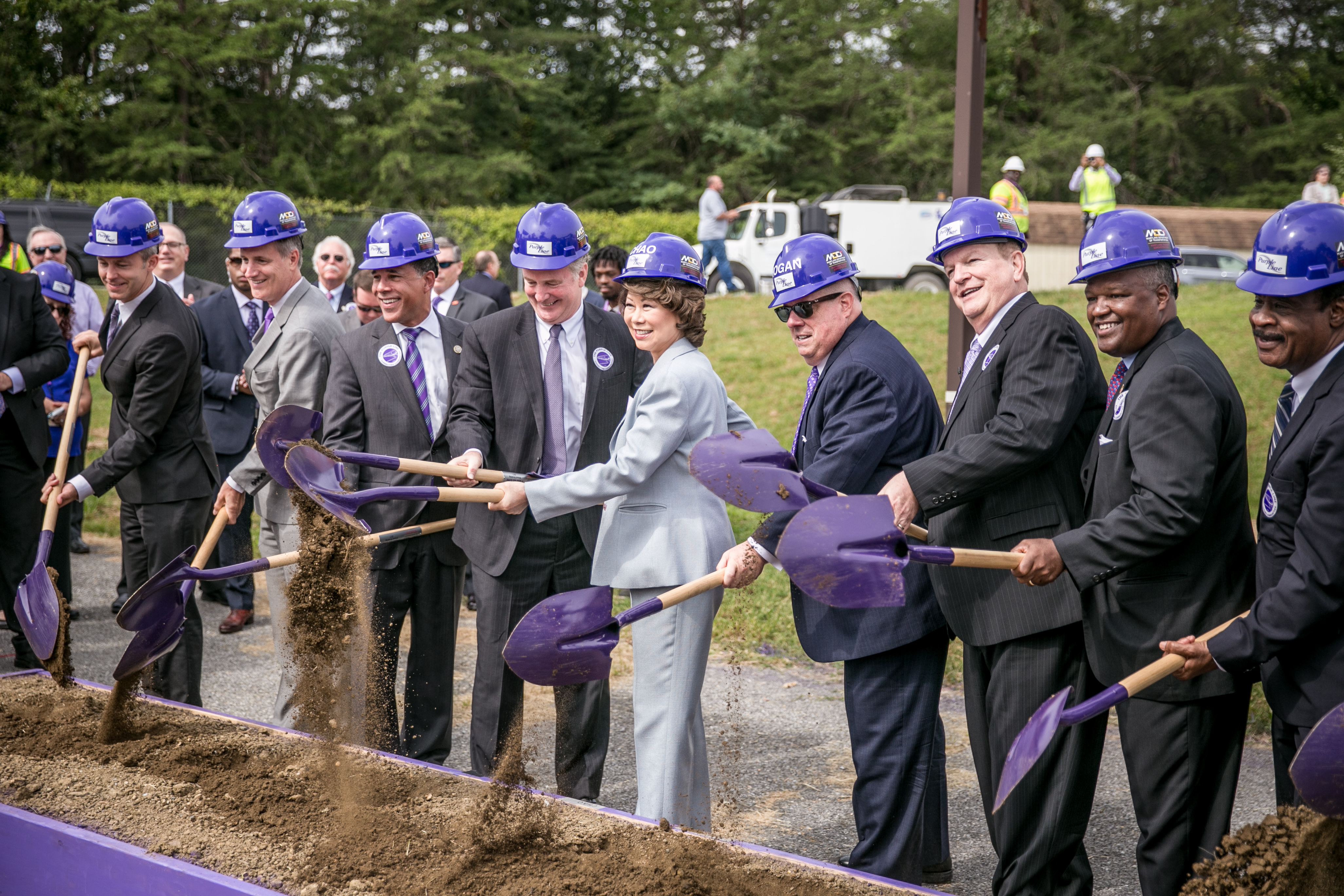 Purple Line groundbreaking in New Carrollton, MD photo credit/Coalition for Smarter Growth (Aimee Custis)